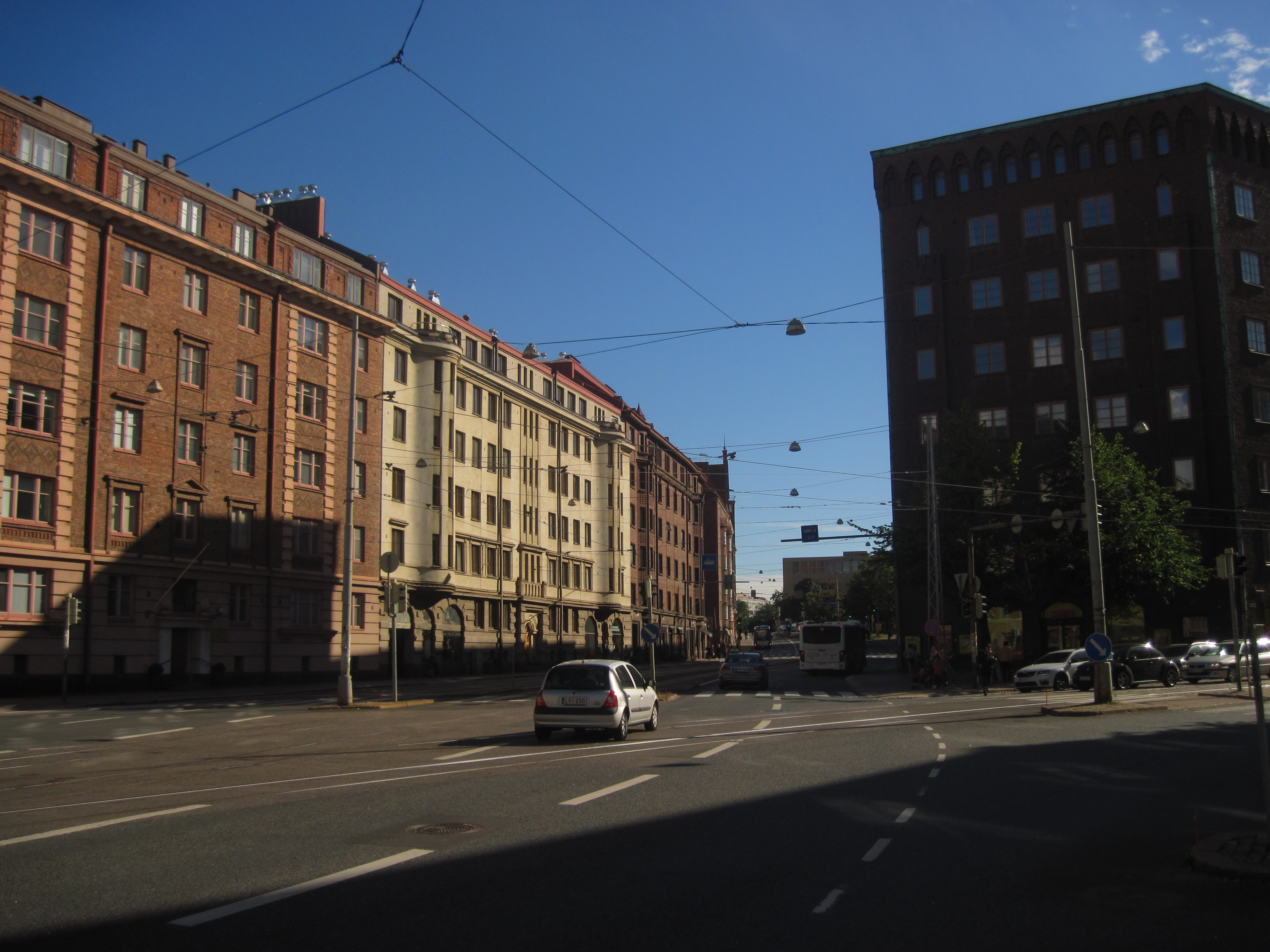 Runeberginkatu in Helsinki, as seen southwards from the corner of Museokatu